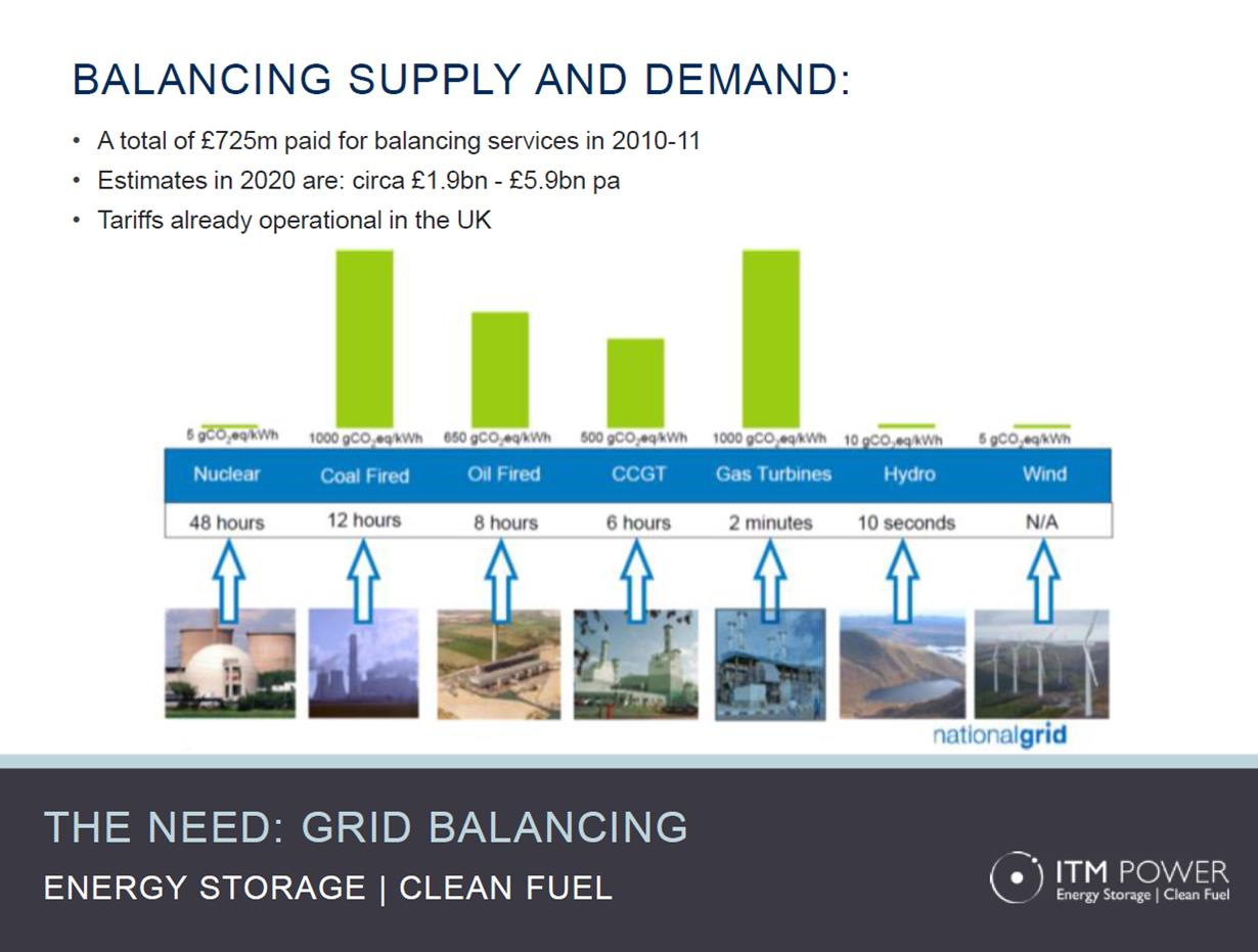 There are a number of ways to generate power, but most are unable to react quick enough to help to balance the grid. This is important when considering intermittent sources of Renewable Energy, and why wind energy is often turned down by the grid.